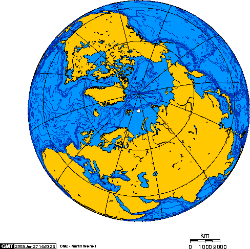 Nagurskoye, Russia's most northerly settlement